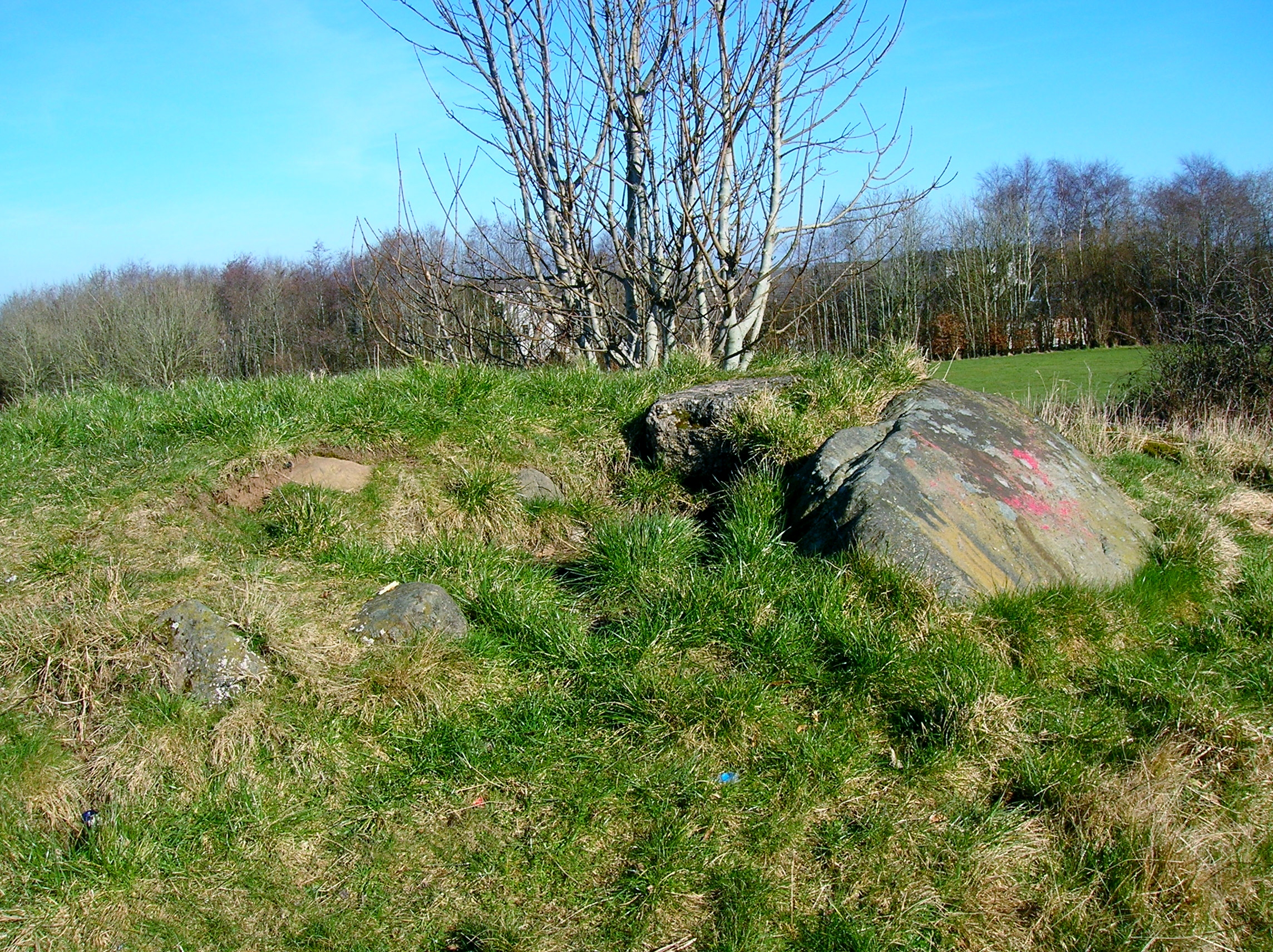 Lawthorn Mount Cairn, detail of stones, Perceton, North Ayrshire, Scotland.